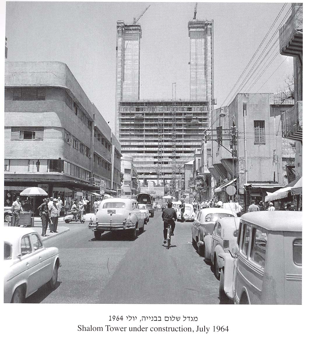 Events in Israel